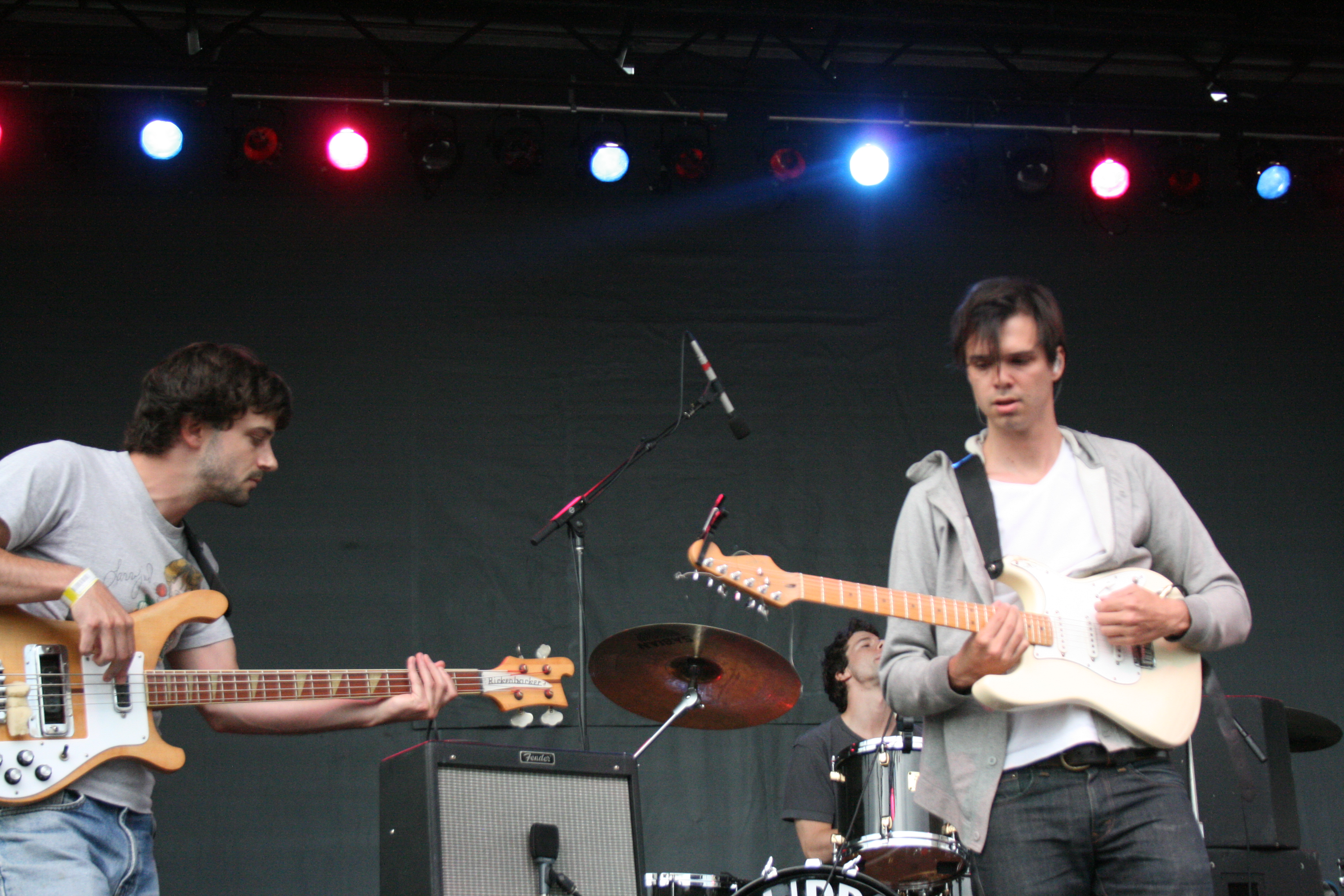 Nat Baldwin and David Longstreth